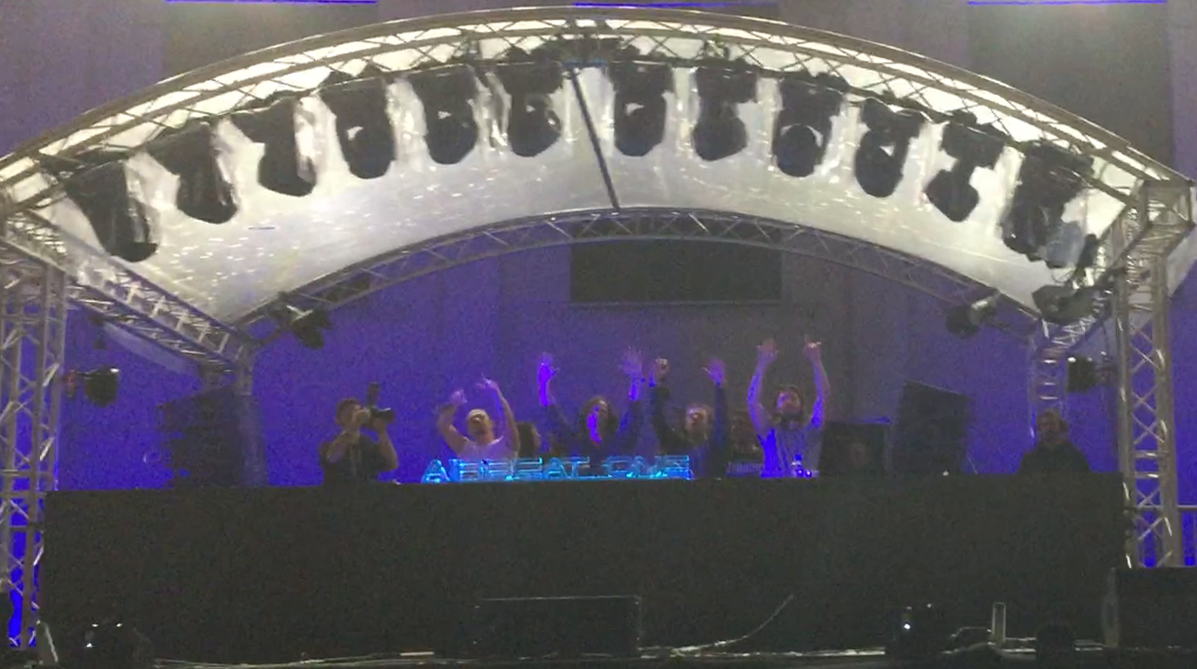 Vini Vici joining the mainstage during Dimitri Vegas & Like Mike's performance at Airbeat One 2017, Neustadt Glewe, Germany